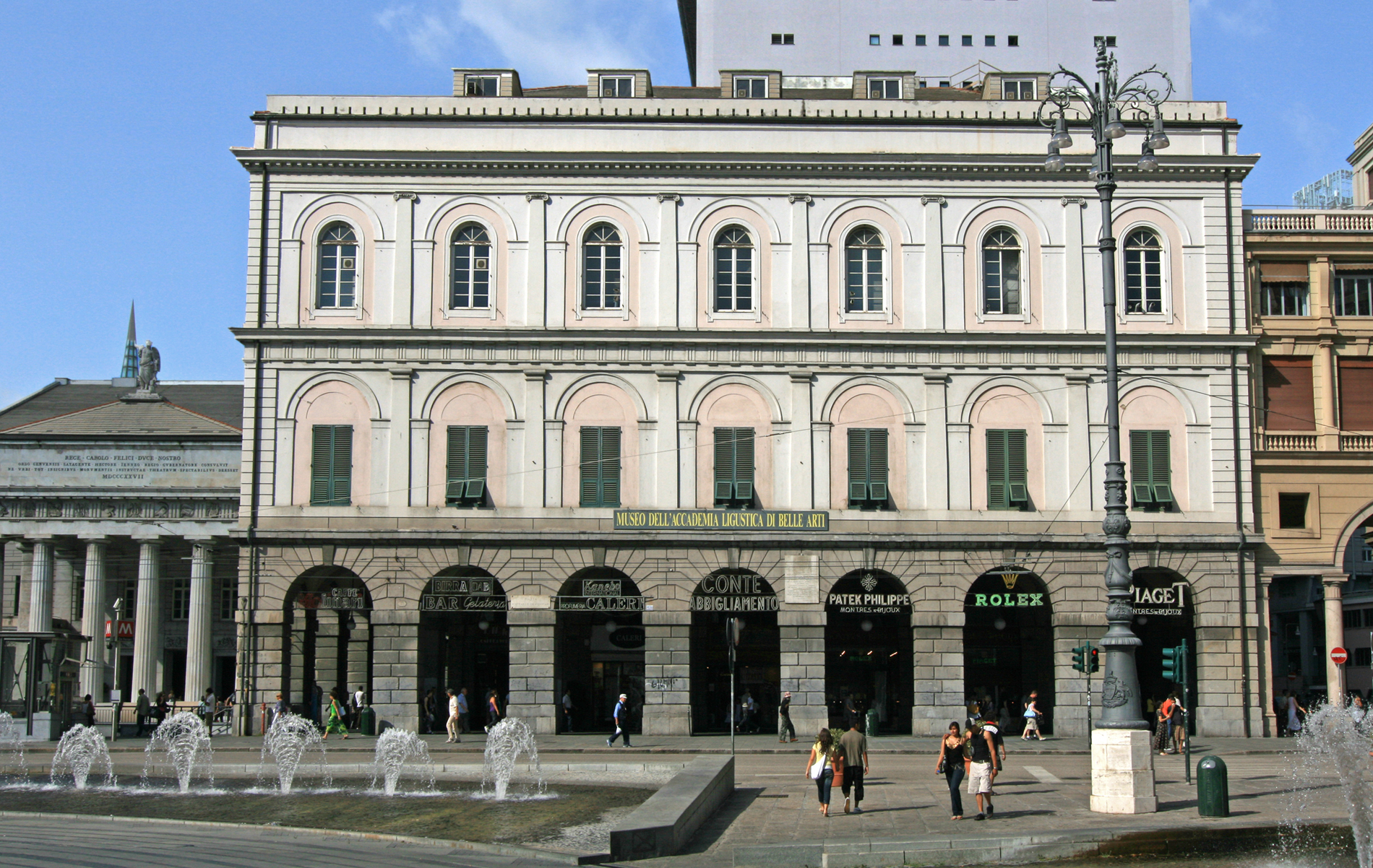 Accademia Ligustica di Belle Arti, Genova.